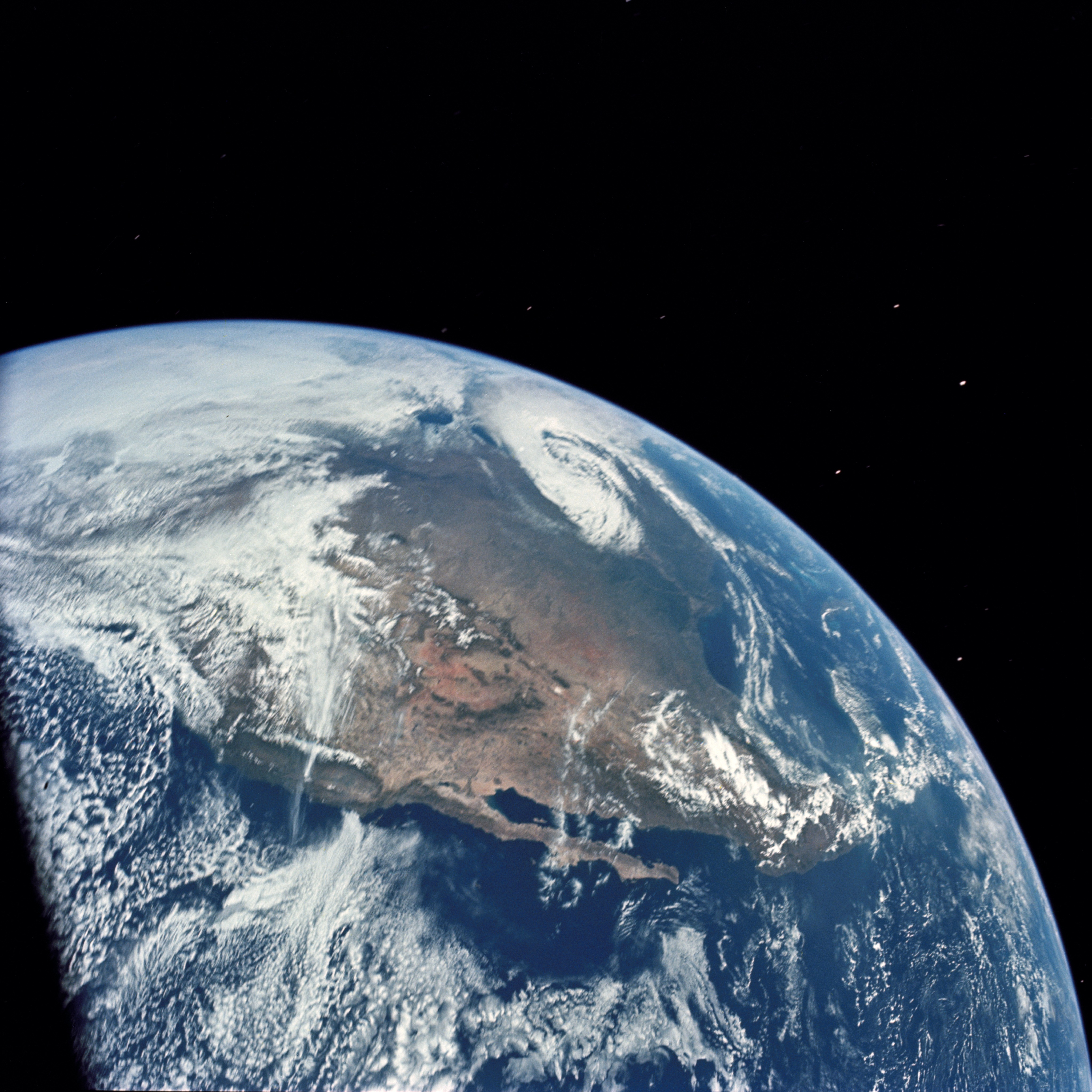 A good view of Earth photographed shortly after trans-lunar injection of April 16, 1972. Although there is much cloud cover (over Canada and the oceans), the United States in large part, most of Mexico and some parts of Central America are clearly visible. Note Lake Michigan and Lake Superior, also note the Bahama Banks at upper right part of the sphere. A large part of the Rocky Mountain Range is also visible. Just beginning man's fifth lunar landing mission were astronauts John W. Young, commander; Thomas K. Mattingly II, command module pilot; and Charles M. Duke Jr., lunar module pilot. While astronauts Young and Duke descended in the Lunar Module (LM) to explore the moon, astronaut Mattingly remained with the Command and Service Modules (CSM) in lunar orbit.